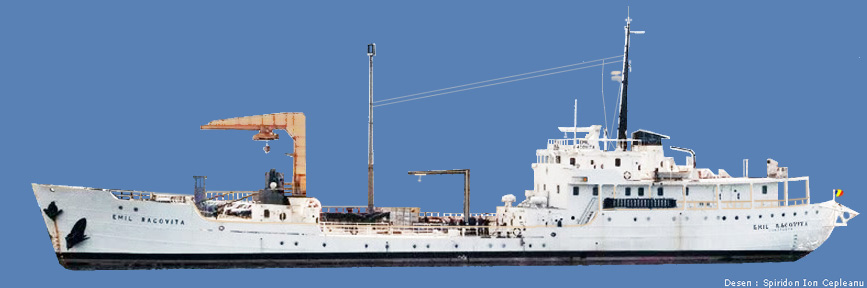 Oceanographic & hydrographic ship "Emil Racoviță" of the romanian navy